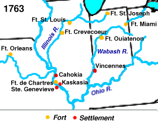 French settlements and forts in the Illinois Country 1763 © 2004 Matthew Trump